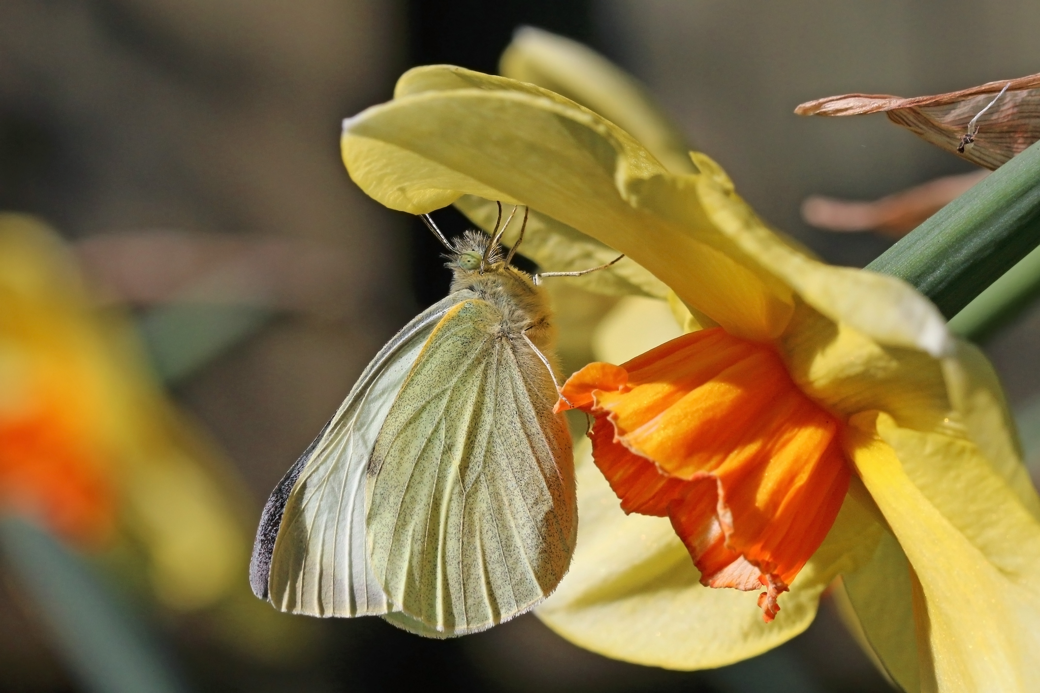 Large white (Pieris brassicae) on daffodil (Narcissus) 'Pimpernel', Cumnor Hill, Oxford.